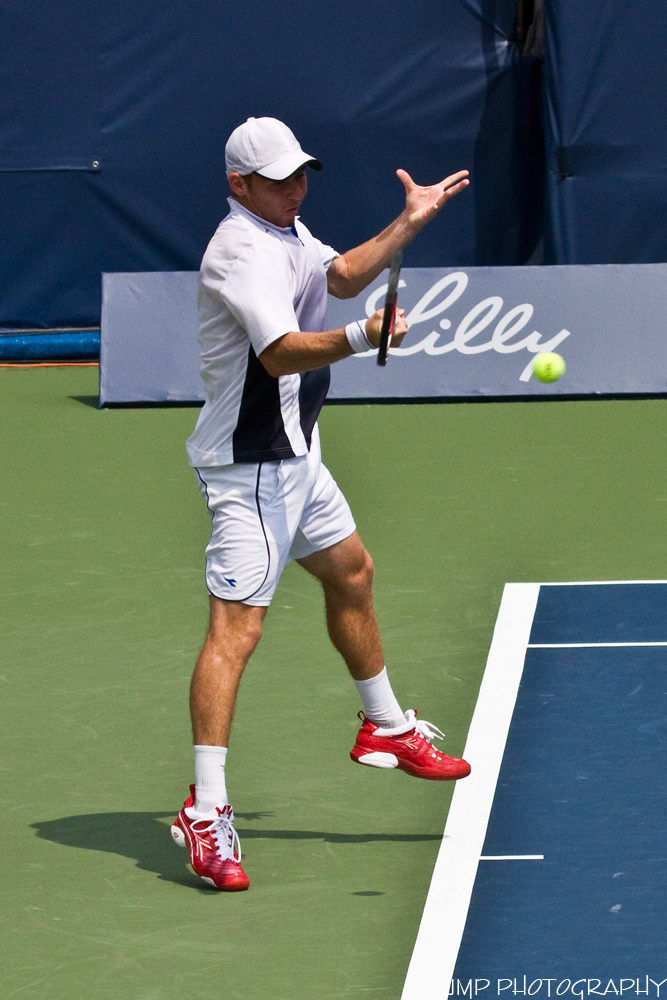 Dudi Sela against Alex Bogomolov, Jr. in the 2009 Indianapolis Tennis Championships second round